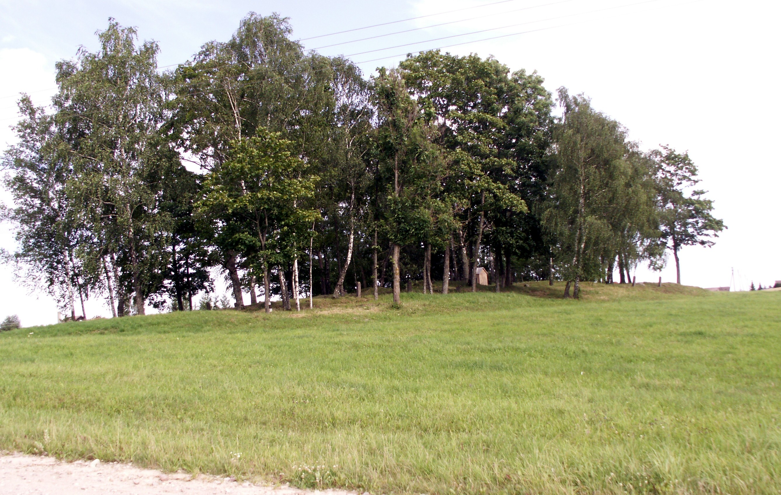 Gilaičiai, Šiauliai district, Lithuania